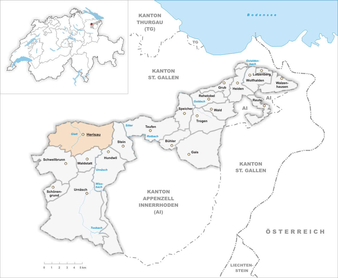 Municipality of Herisau